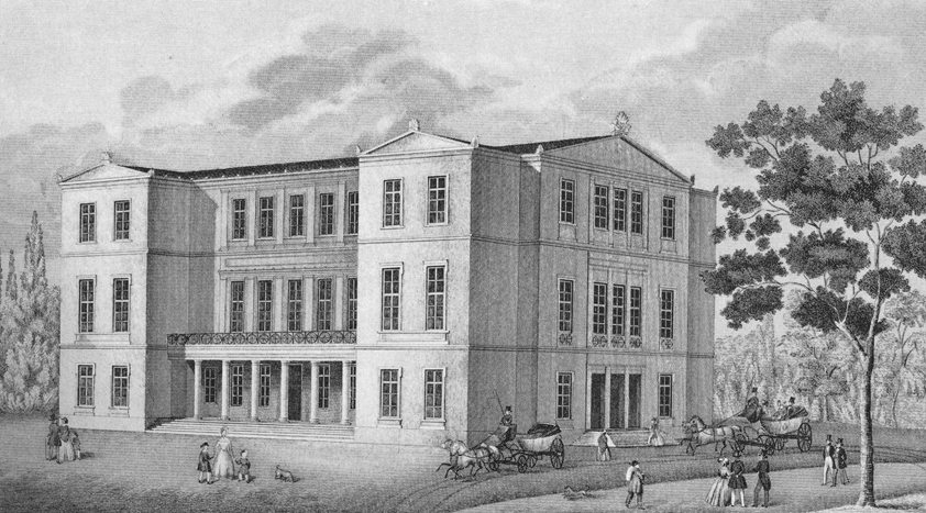 Lithography by G. Hunkel showing the second Stadttheater (“City theater”, later “State theater”) Am Wall in Bremen, Germany, built by Heinrich Seemann in 1843, destroyed 1944.